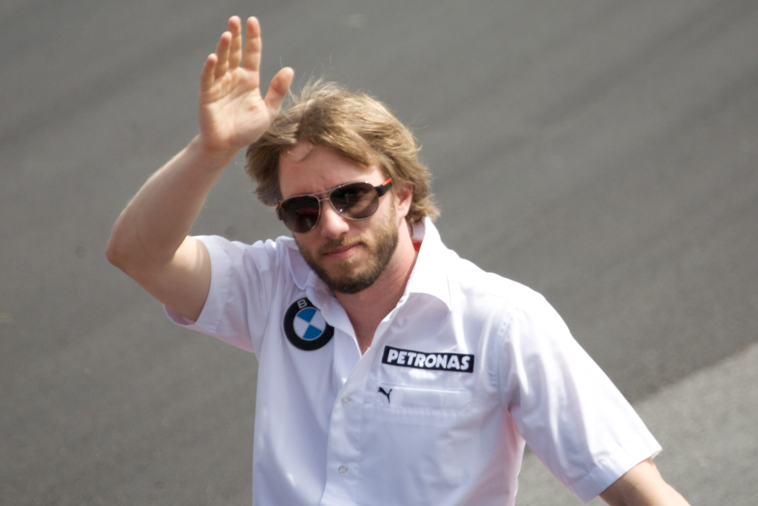 Nick Heidfeld at the 2008 Canadian Grand Prix.